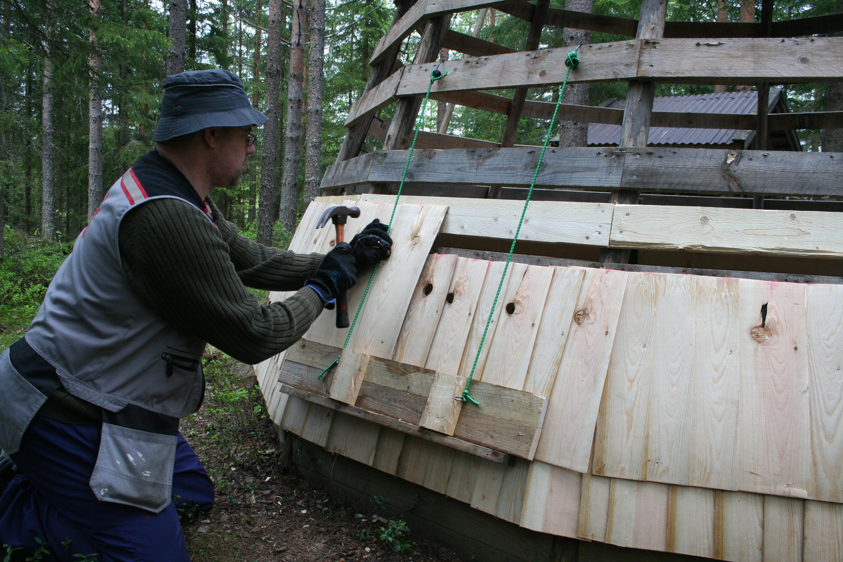 A goahti is covered with wooden shingle sidings